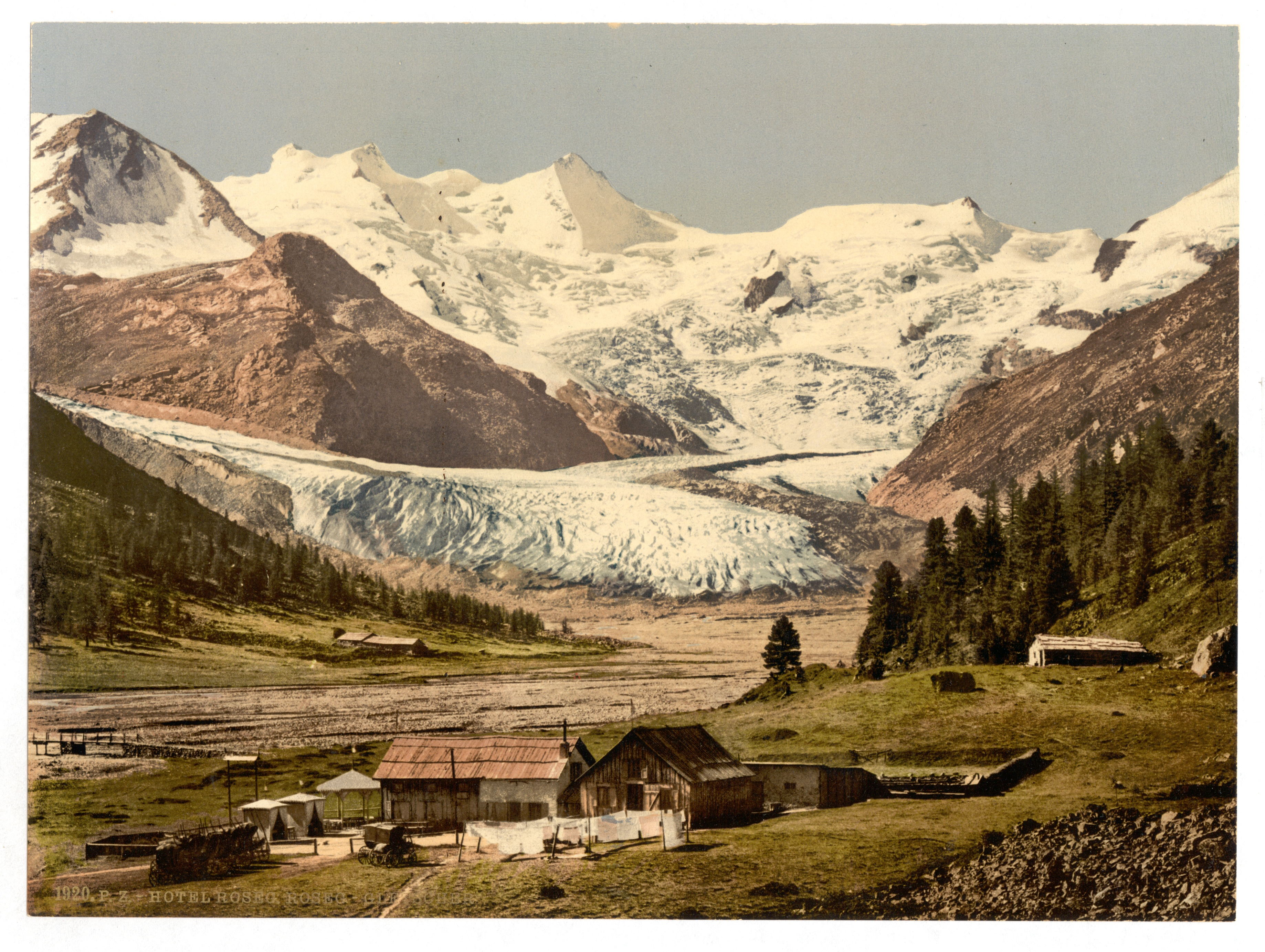 Forms part of: Views of Switzerland in the Photochrom print collection.; Title from the Detroit Publishing Co., Catalogue J-foreign section, Detroit, Mich. : Detroit Publishing Company, 1905.; Print no. "1920".